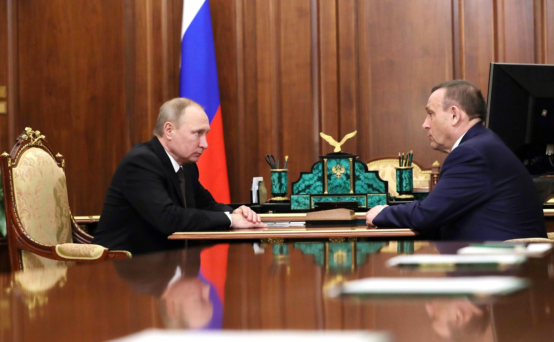 Meeting Vladimir Putin with Alexander Yevstifeyev 2017-04-06